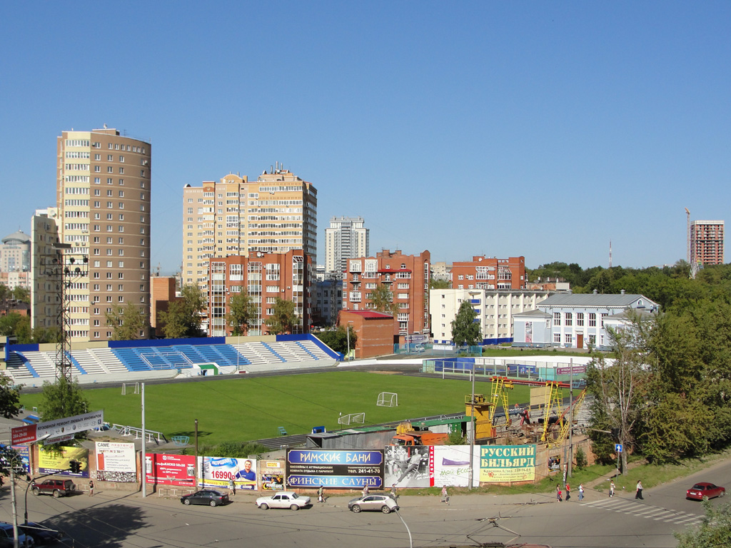 Dinamo Stadium